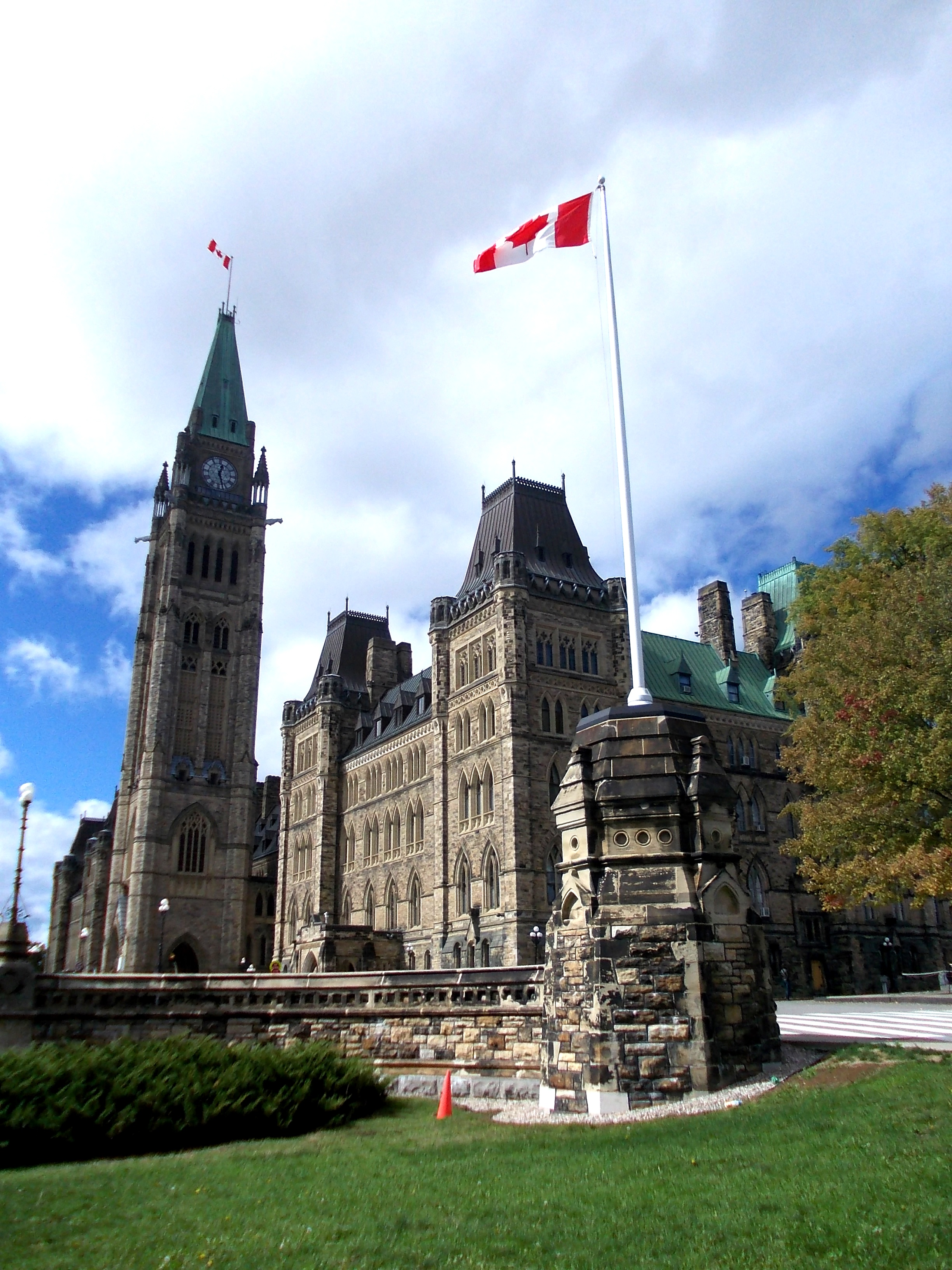 Parliament Centre Block from the south east corner